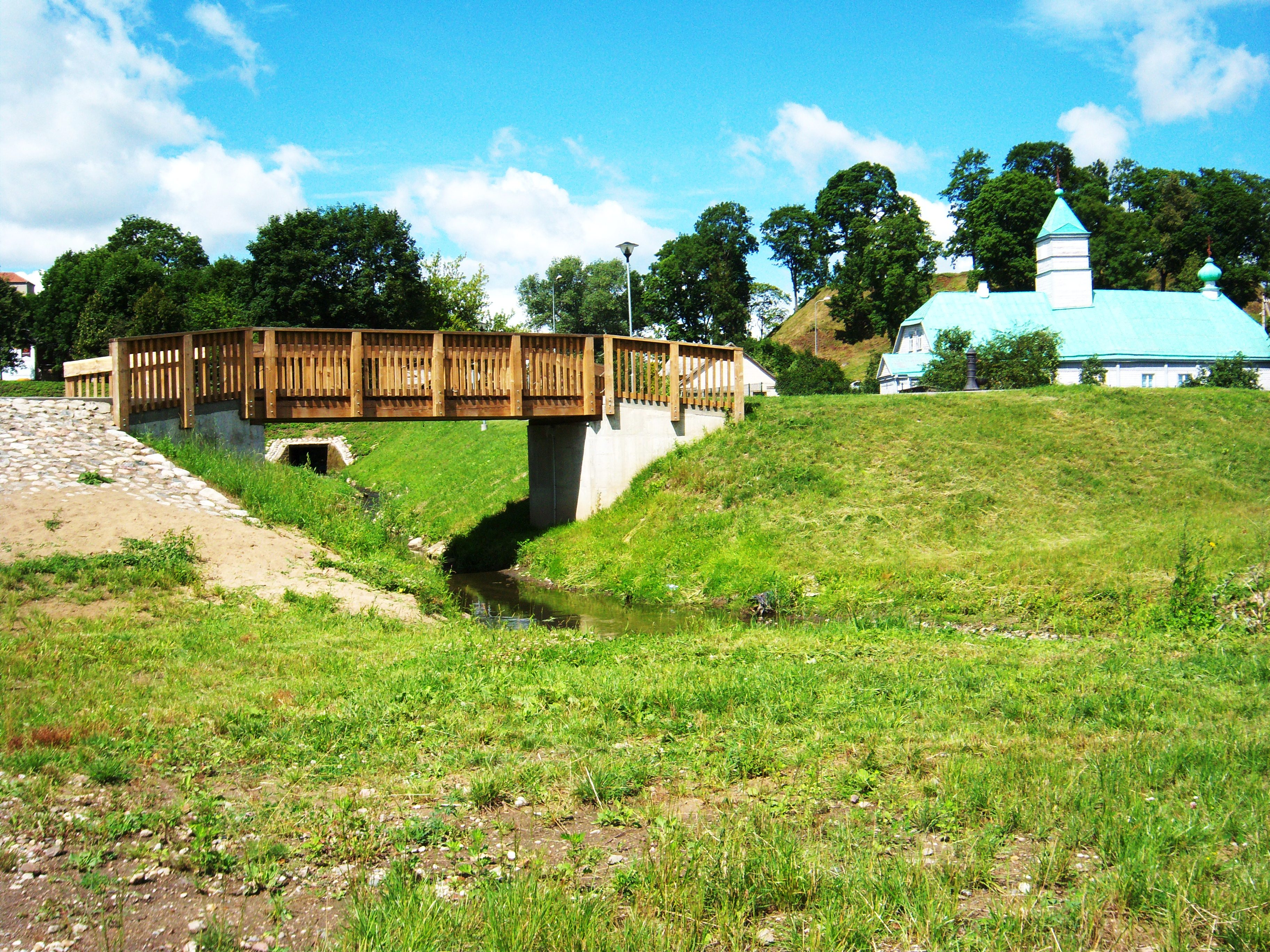 Ukmergėlė stream, Ukmergė, Lithuania